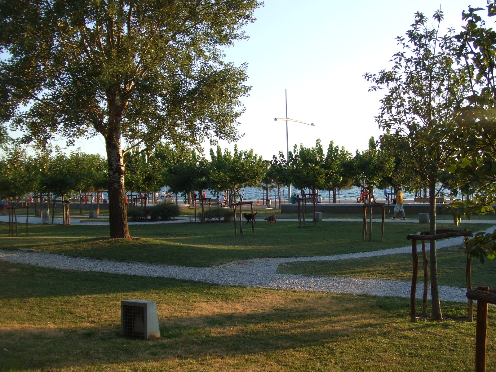 Sound Garden - Thessaloniki waterfront